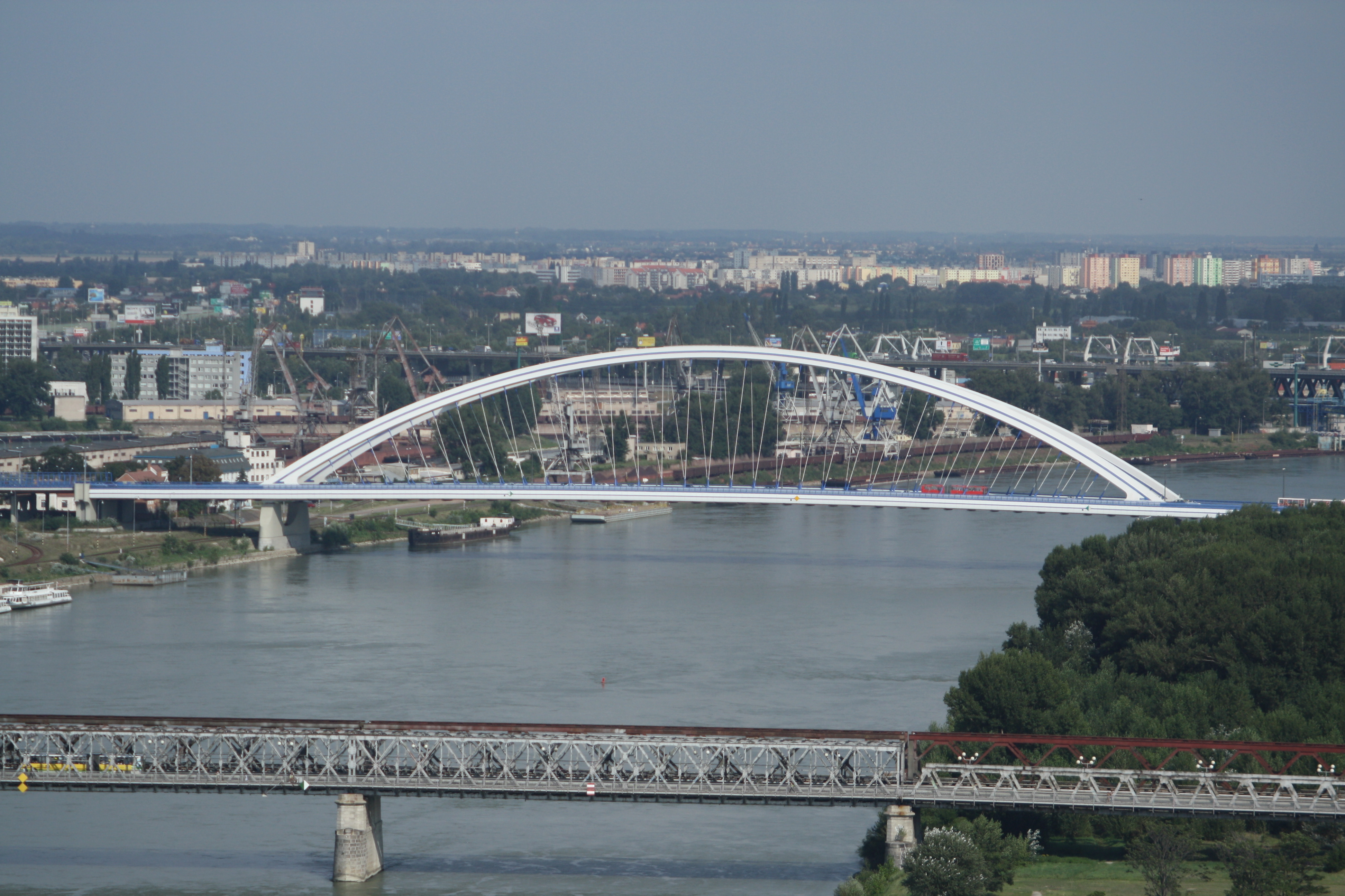 Bridges over the Danube river in Bratislava, view from Nový most viewpoint.